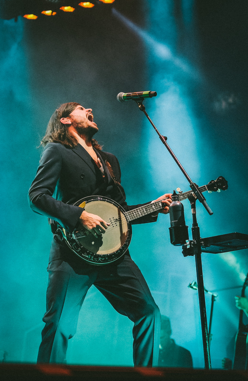 Mumford & Sons guitarist Winston Marshall performing at Madison Square Garden in 2018